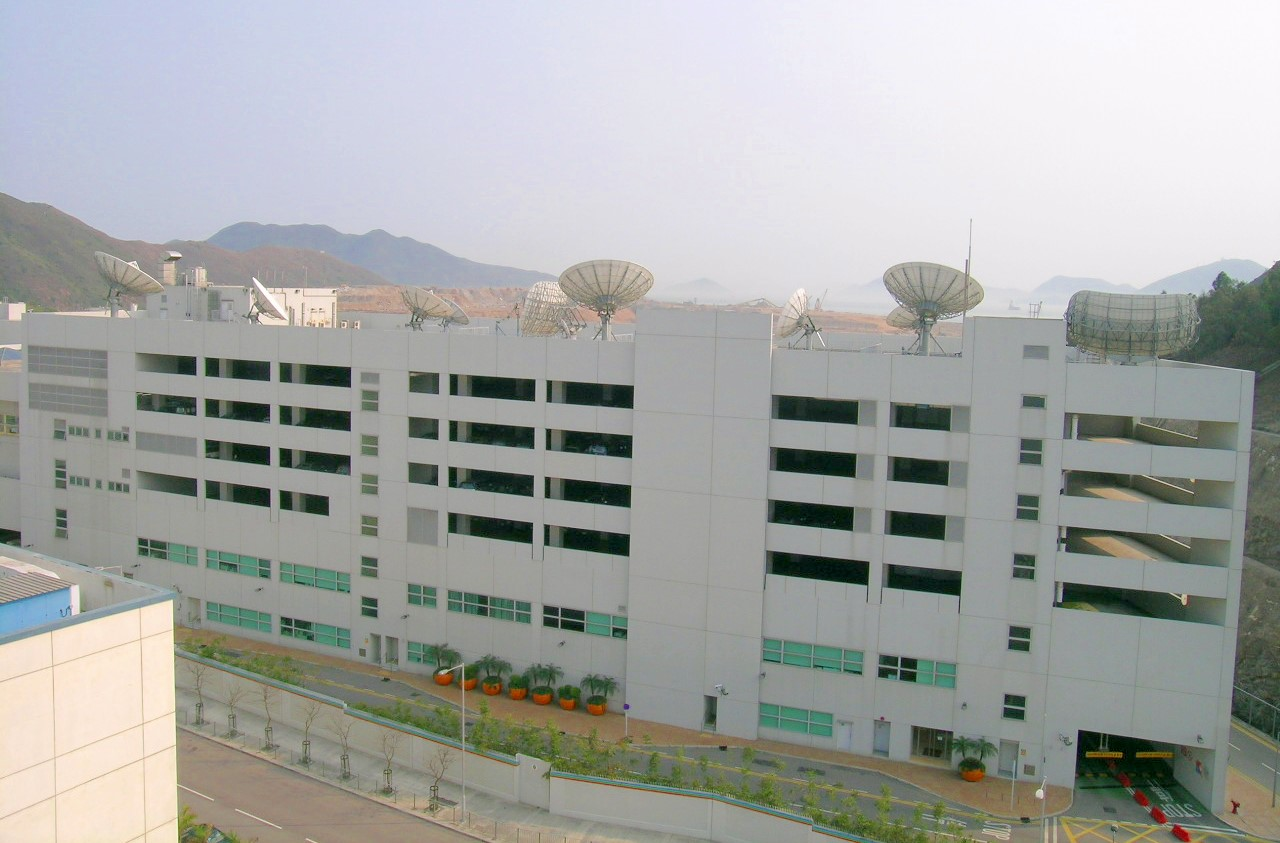 News block of TVB City, HK